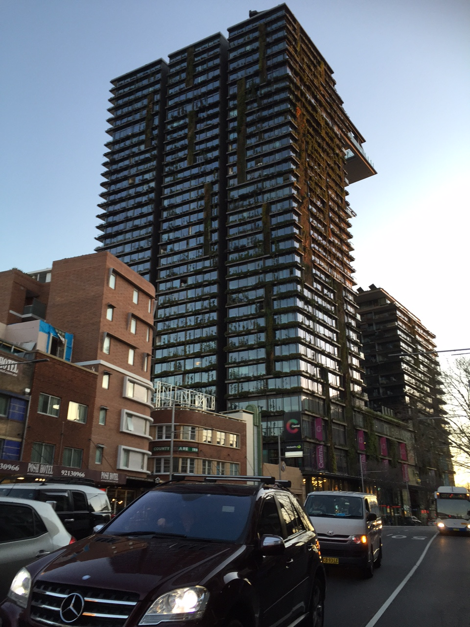 One Central Park as seen from Harris Street, Ultimo.